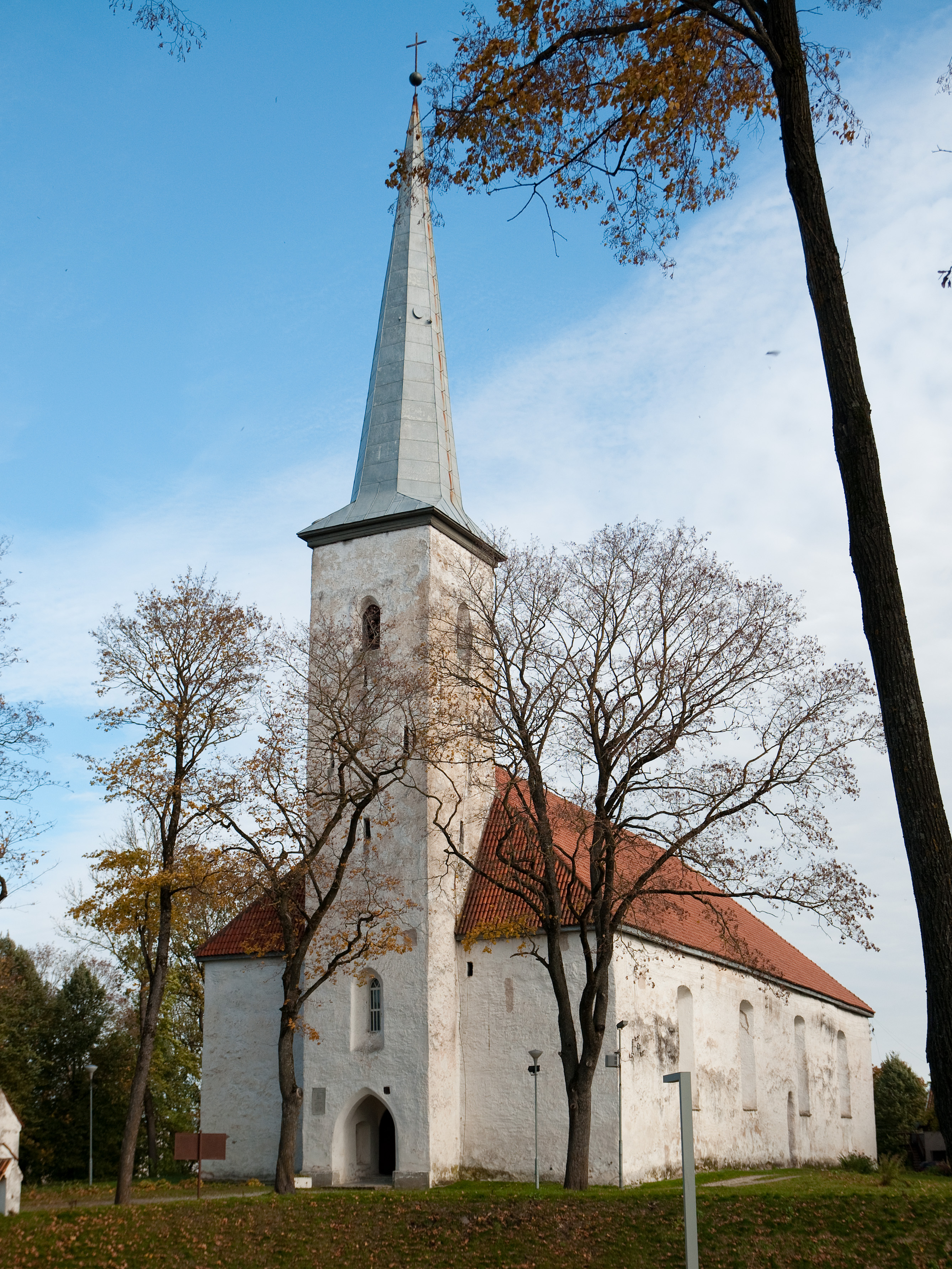 Jõhvi church in Jõhvi, Estonia